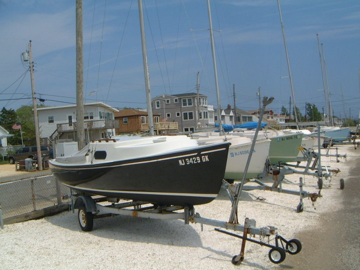 Tom Stevenson, O'Day Mariners at the Surf City Yacht Club, NJ, 2004